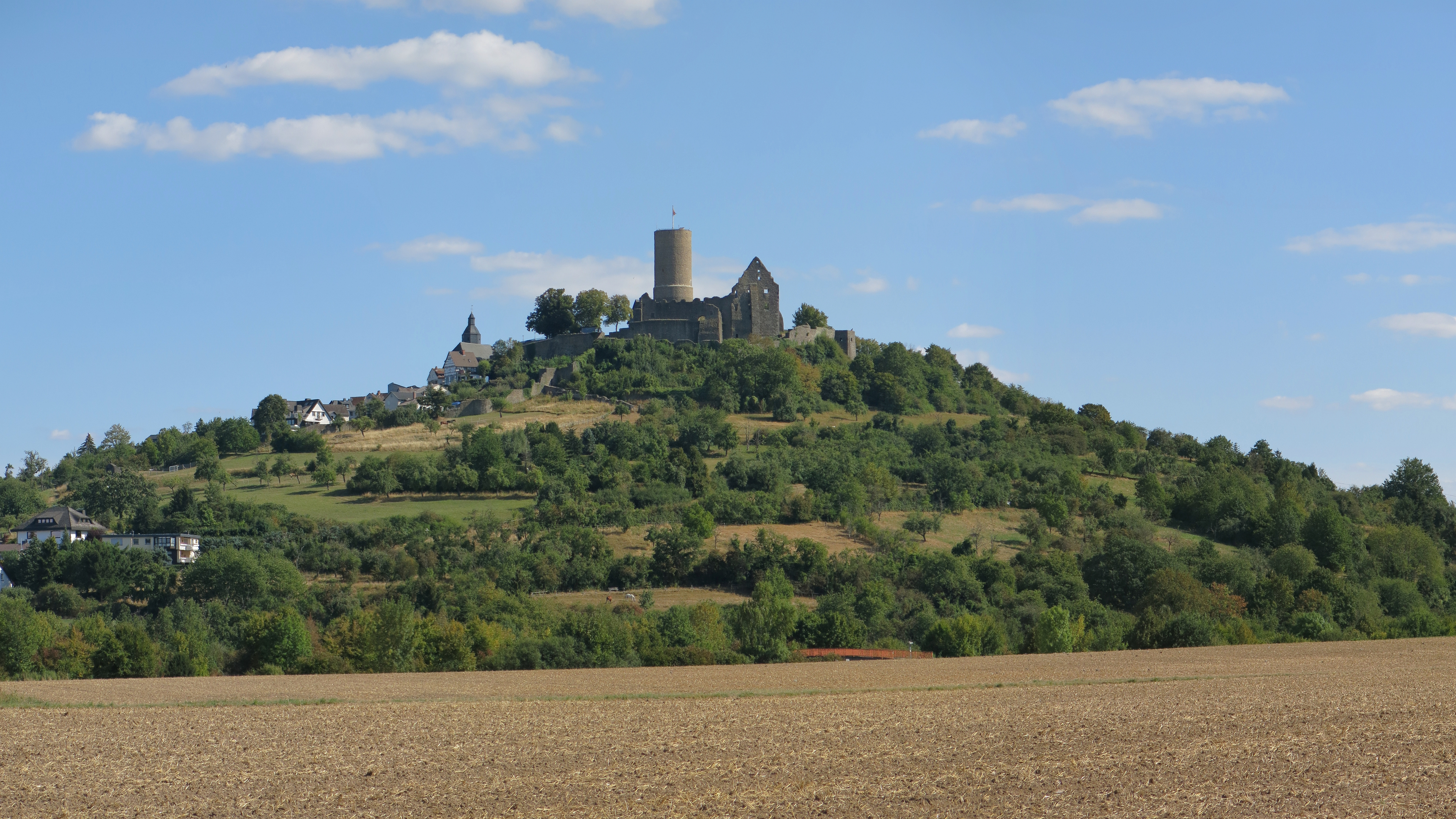 Gleiberg castle near Gießen in Hesse, seen from northwest